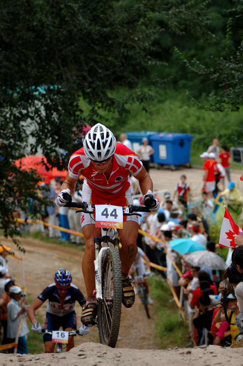 Cycling at the 2008 Summer Olympics – Men's cross-country - Klaus Nielsen (Denmark)